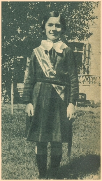 Queen Farida in the age of 10 wearing her school uniform